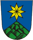 Municipal coat of arms of Šternberk town, Olomouc District, Czech Republic.